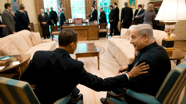 President Barack Obama meets with Israeli Prime Minister Benjamin Netanyahu in the Oval Office.